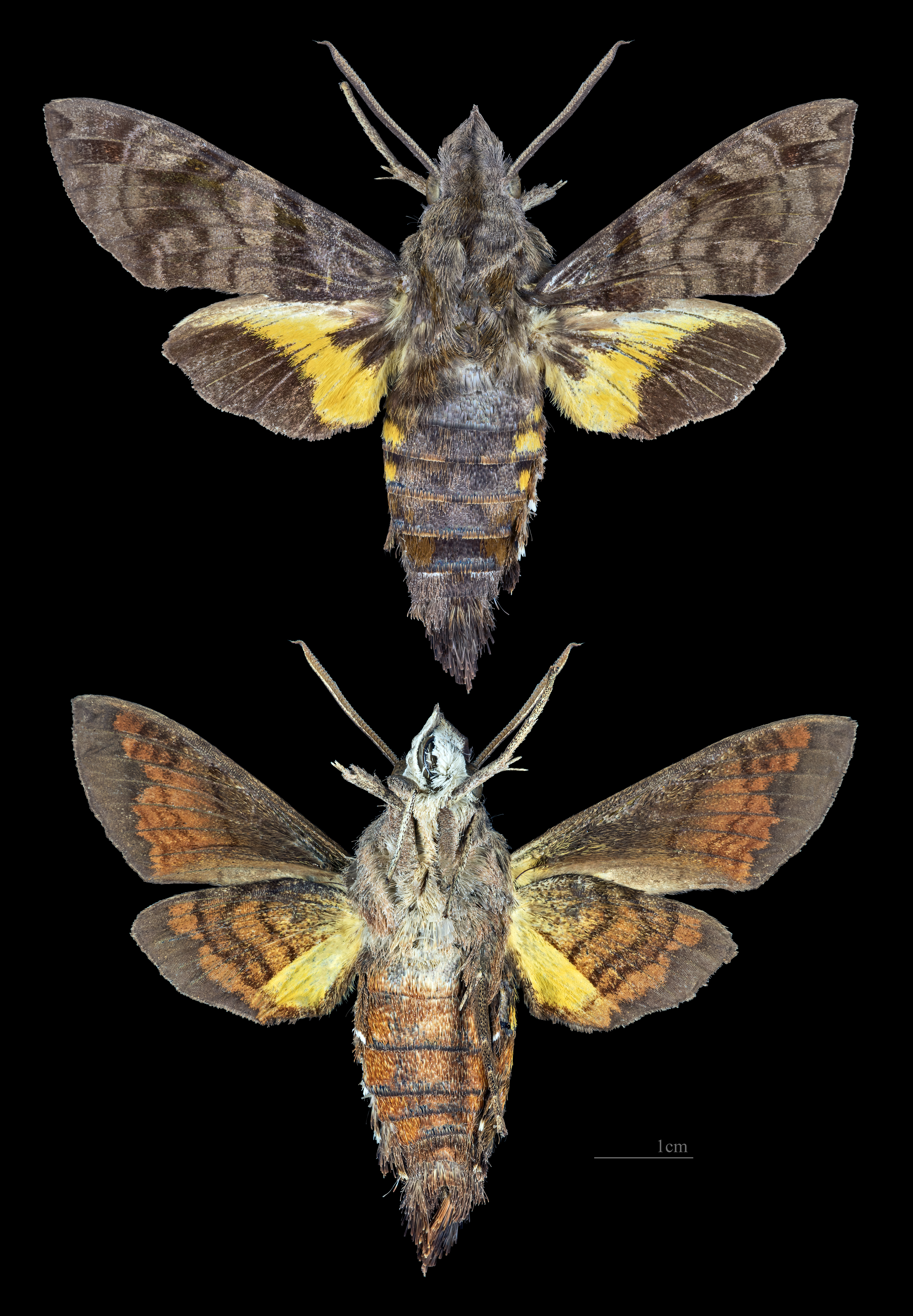 Macroglossum ungues - Two views of same specimen Collection of the Mathematician Laurent Schwartz